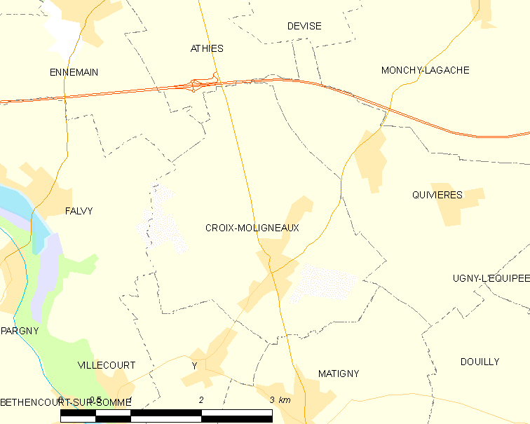 Map of French municipality Croix-Moligneaux